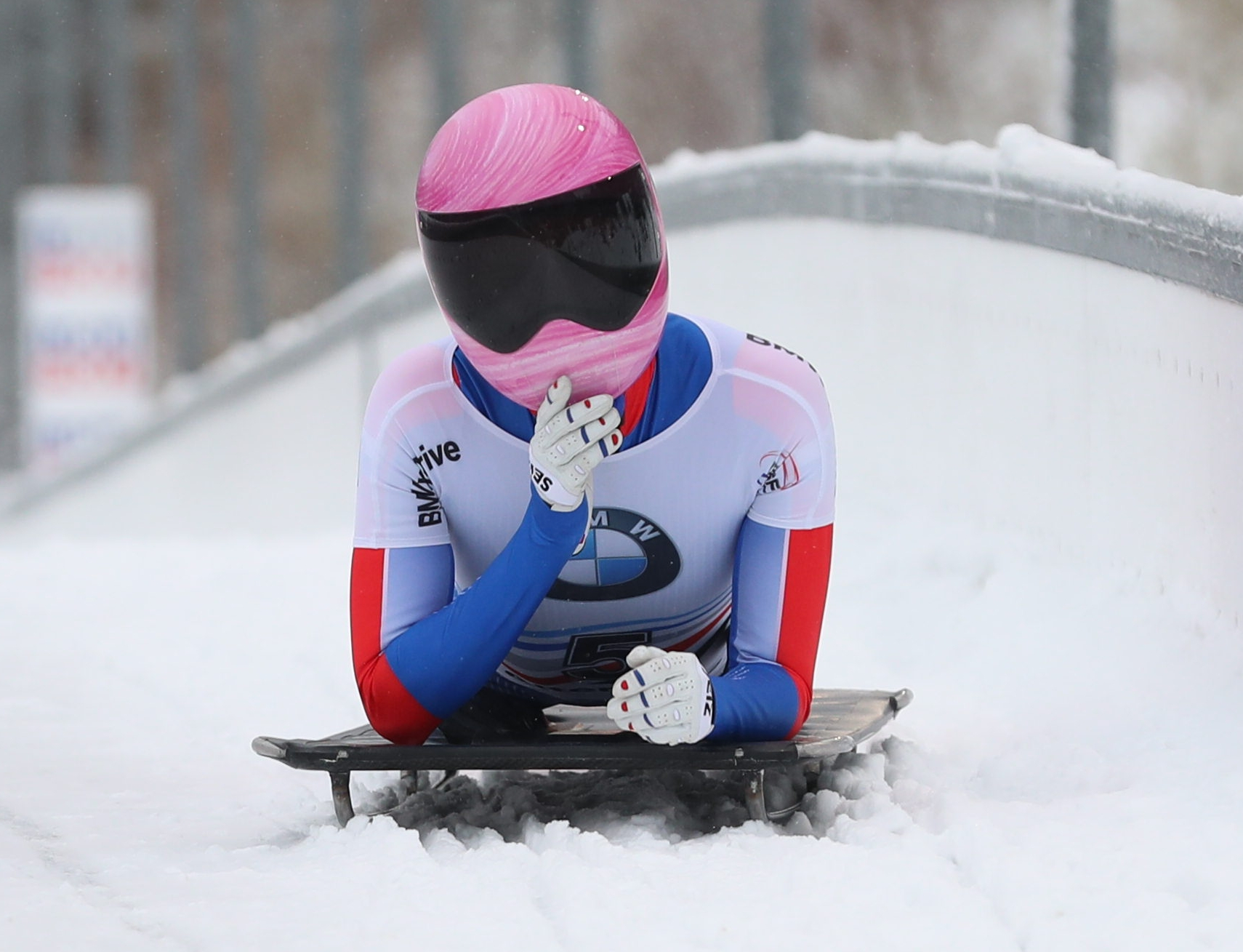 Women's World Cup race at the 2018/19 Skeleton World Cup in Altenberg